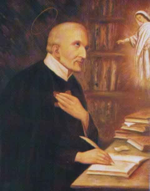 Painting with Saint Alphonsus Liguori